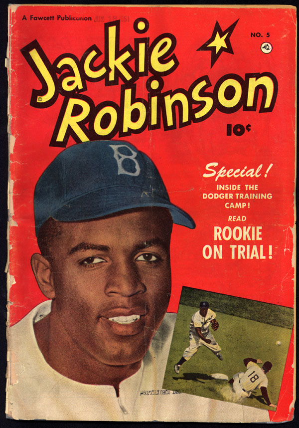 Front cover of Jackie Robinson comic book (issue #5). Shows head-and-shoulders portrait of Jackie Robinson in Brooklyn Dodgers cap; inset image shows Jackie Robinson covering a slide at second base.